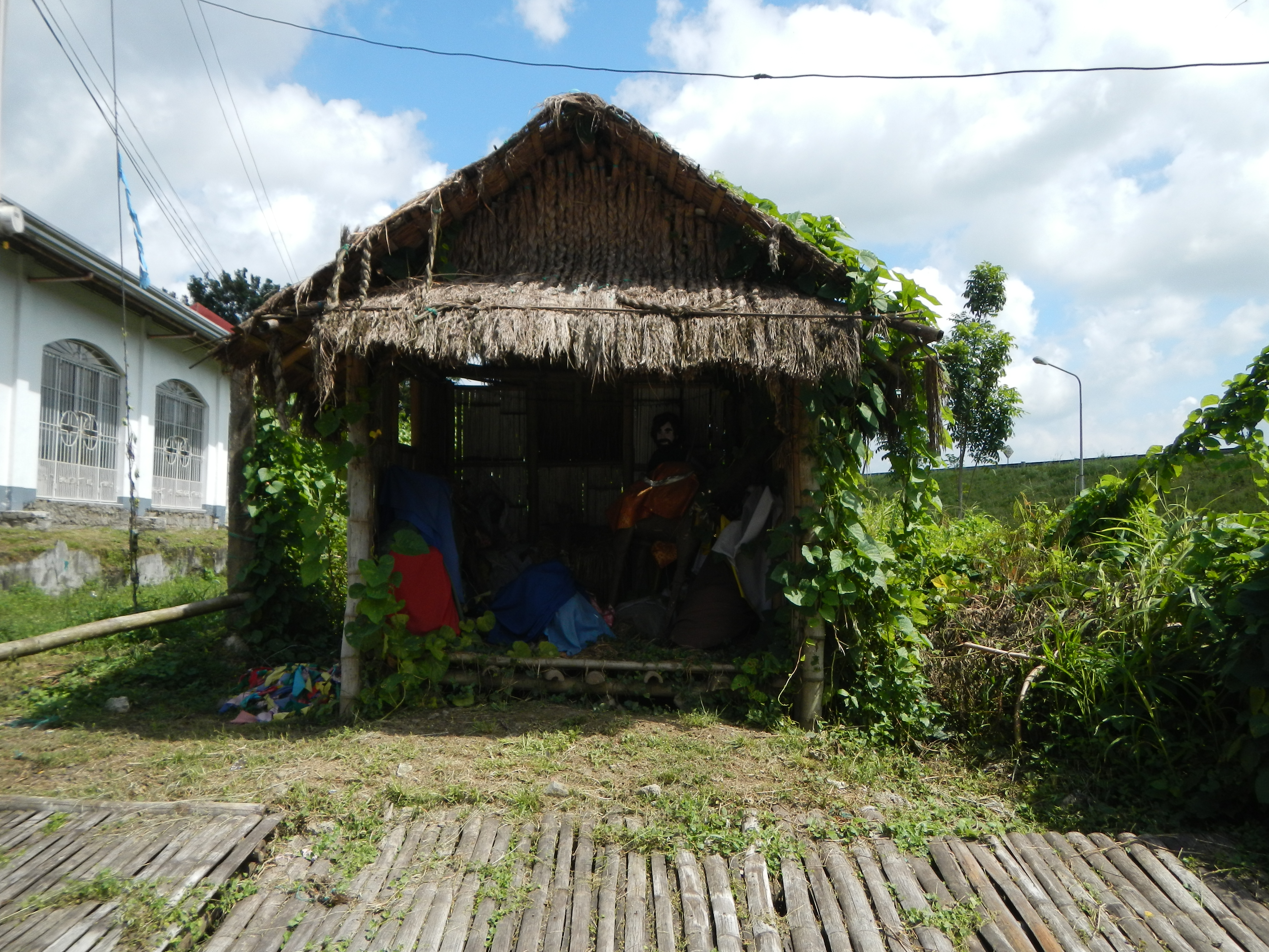 Upload Wizard photos of - DLTBCo[1] Del Monte Land Transport Bus Company or simply DLTBCo, and - Barangay Malainin, Hall,[2]Coordinates: 13°49'59"N 121°7'23"E Purok Mayumi, Chapel, Ibaan, Batangas [3] STAR Tollway - Ibaan Exit Malainin Coordinates: 13°50'23"N 121°7'15"E Southern Tagalog Arterial Road[4] th the Pan-Philippine Highway [5] the Maharlika Highway and the South Luzon Expressway [6] - Ibaan, Batangas [7].